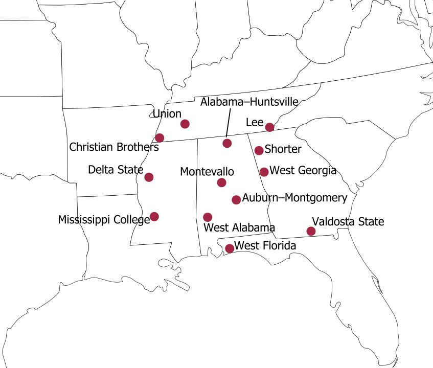 Map of schools in the Gulf South Conference